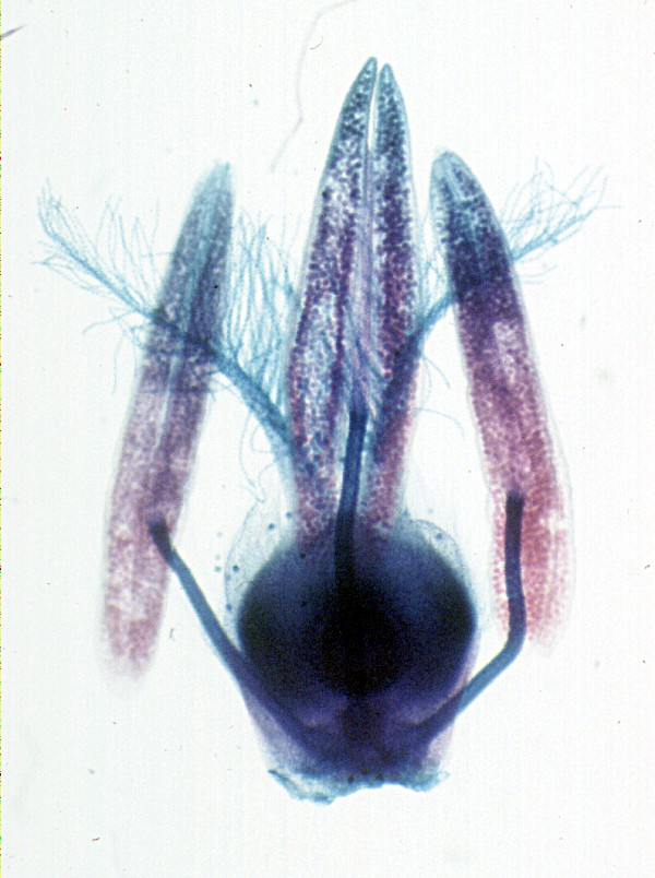 Light micrograph of a whole-mount slide of a flower of Triticum